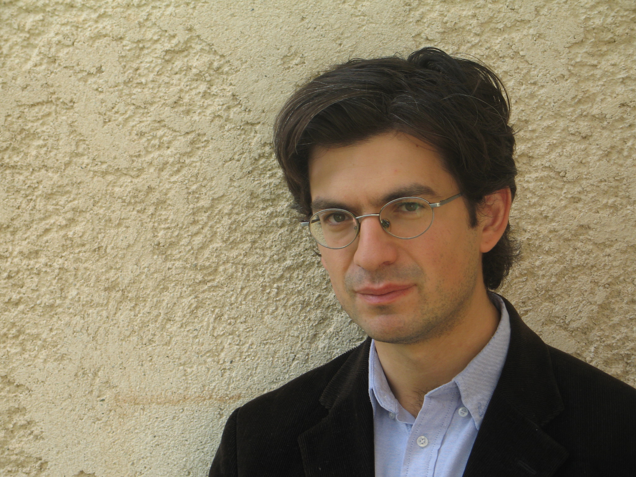 The French writer Fabrice Hadjadj. Institution Ste Jeanne d'Arc, Brignoles (Var).